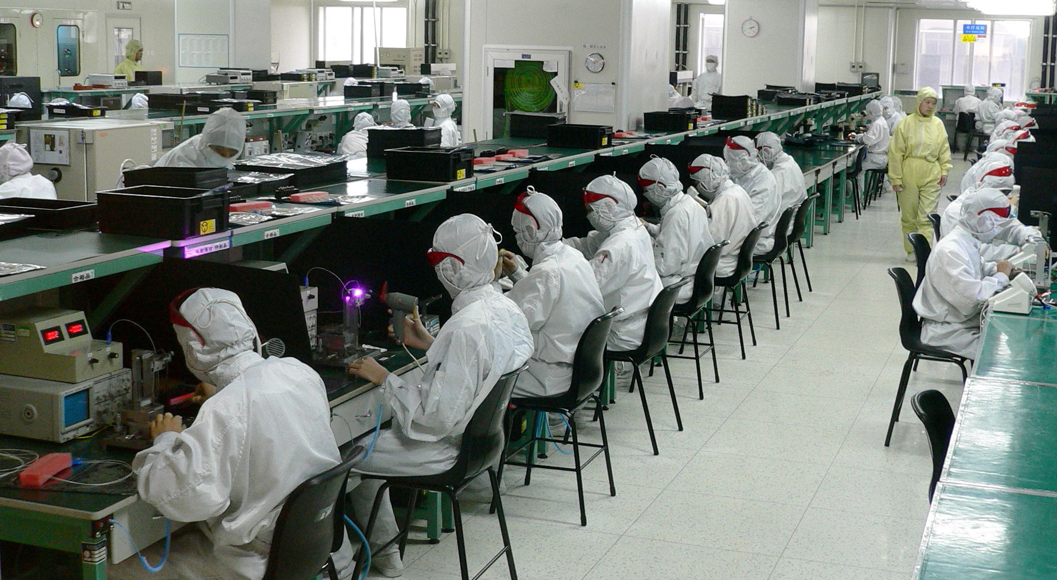 Yellow suits are managers, QC is in pink. The glasses are eye protection from the bright light used to photo-cure the epoxy that holds the fiber optic components in place.